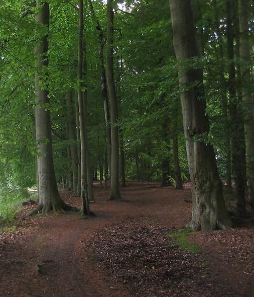 Tiergarten (german literally for: zoological garden), historical hunting-forest and todays nature reserve, in the village Neue Mühle, part of the town Königs Wusterhausen in the district Dahme-Spreewald, state Brandenburg, Germany.